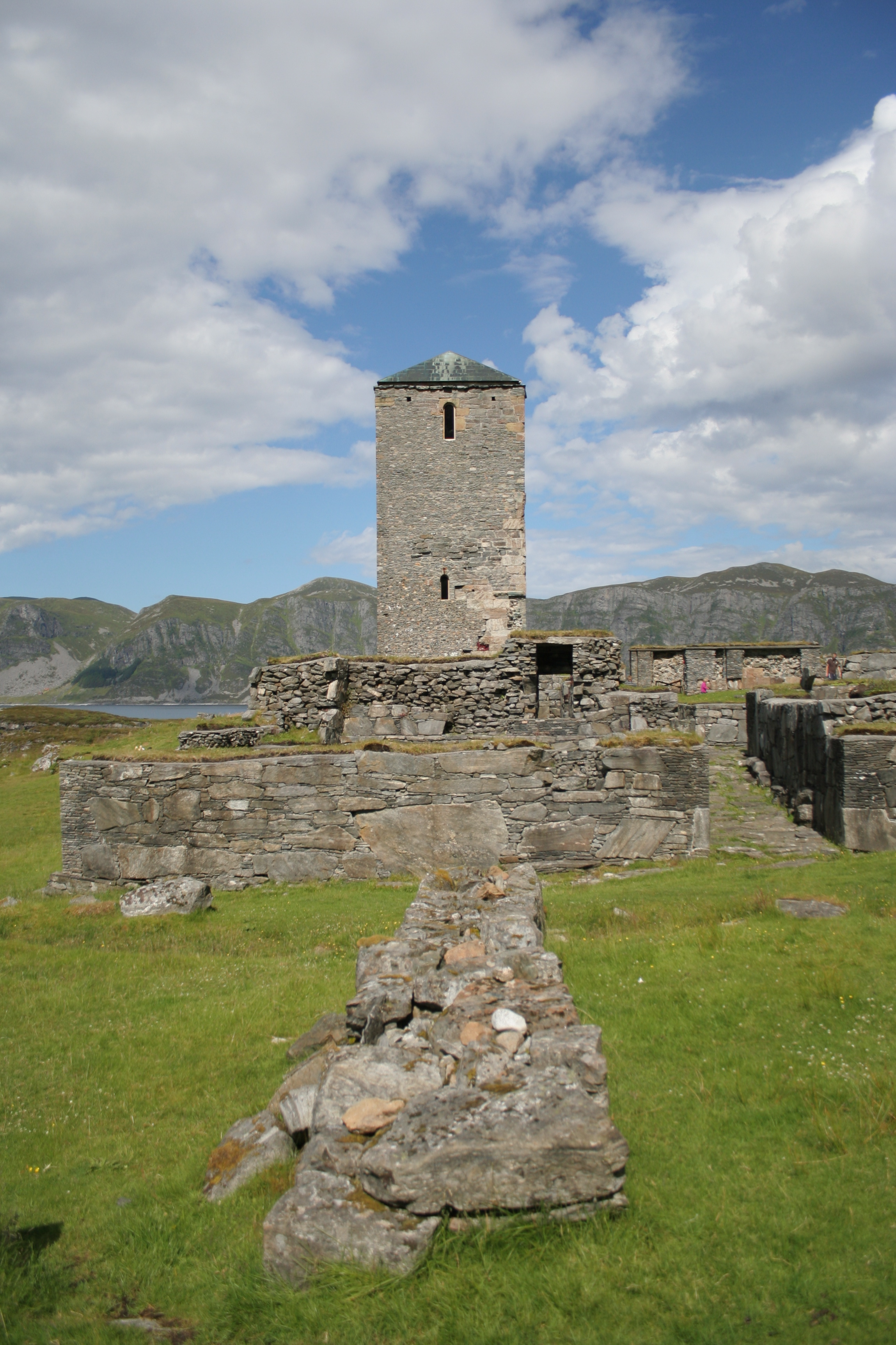 The Bell Tower is believed to have been even higher, but this is the remains today. Selje Monastery is still a catholic church today, and it's Bishop is situated in Sarajevo.